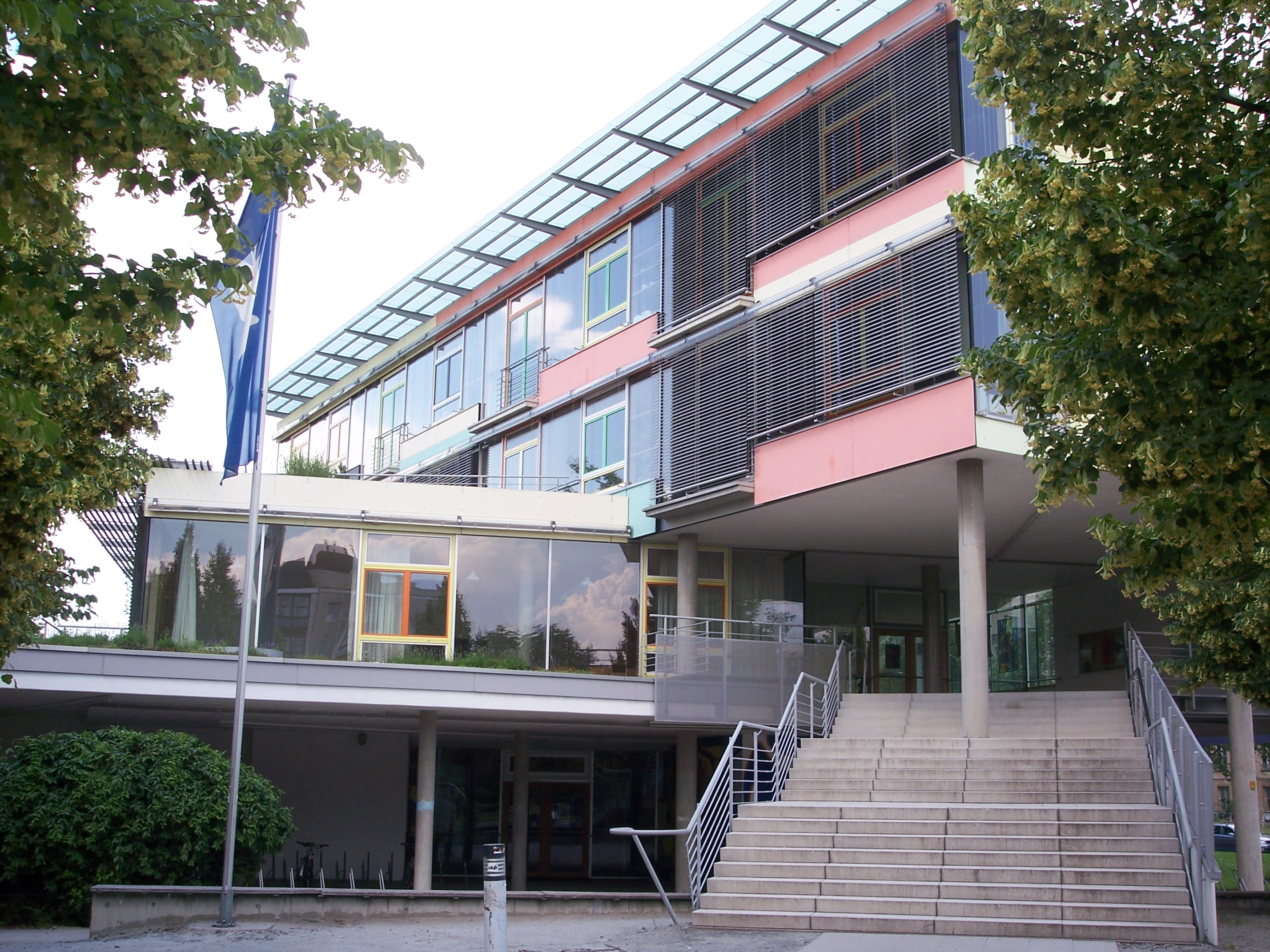 main entrance of “St. Benno-Gymnasium”, a school for secondary education in Dresden, Germany (architect: Günther Behnisch)